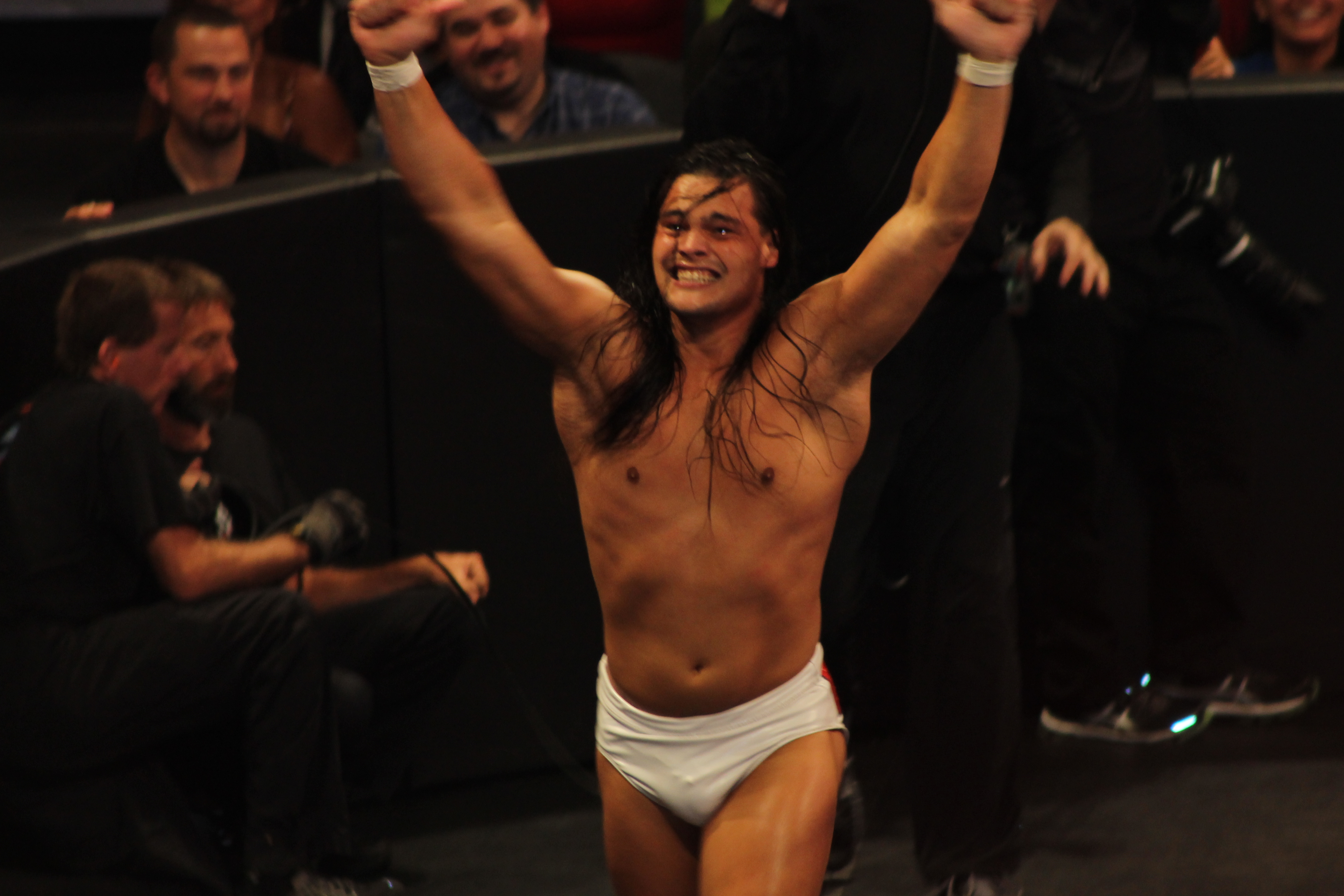 Bo Dallas celebrates after a win, running a lap around the ring and sporting an exaggerated grin.